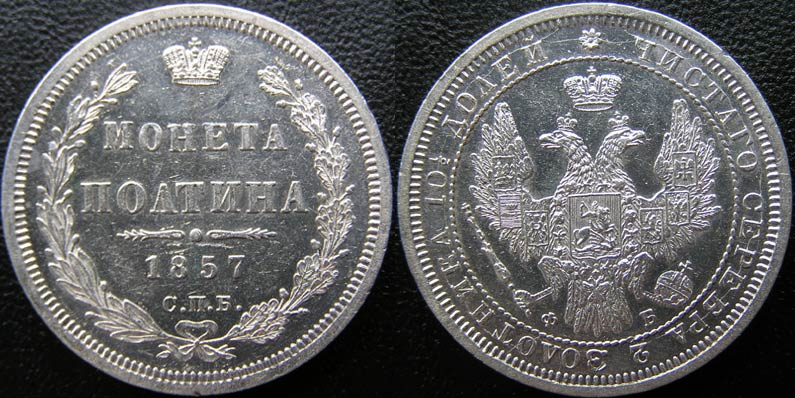 Poltina